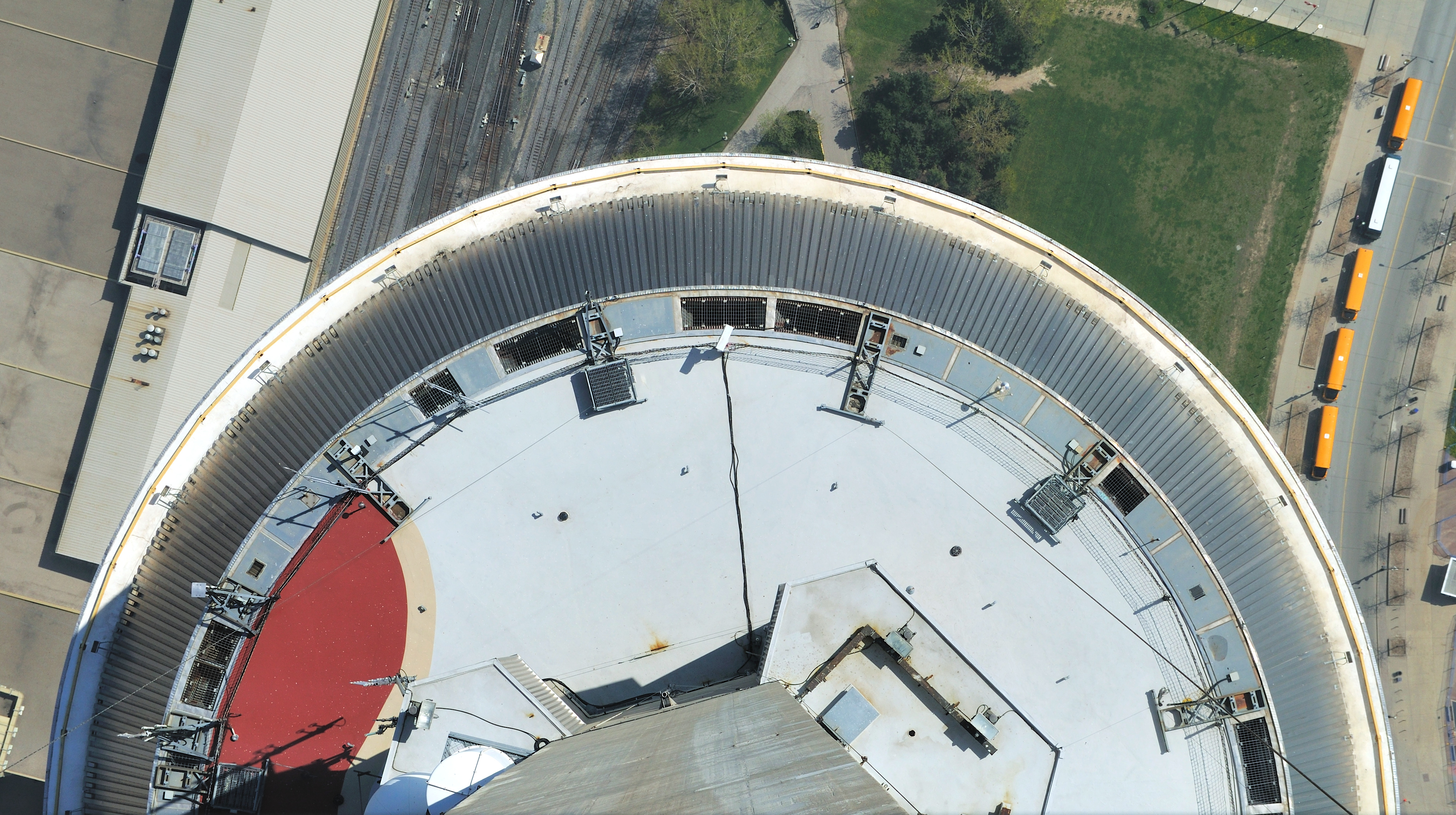 Toronto: view from Sky Pod down to the roof of the Main Pod